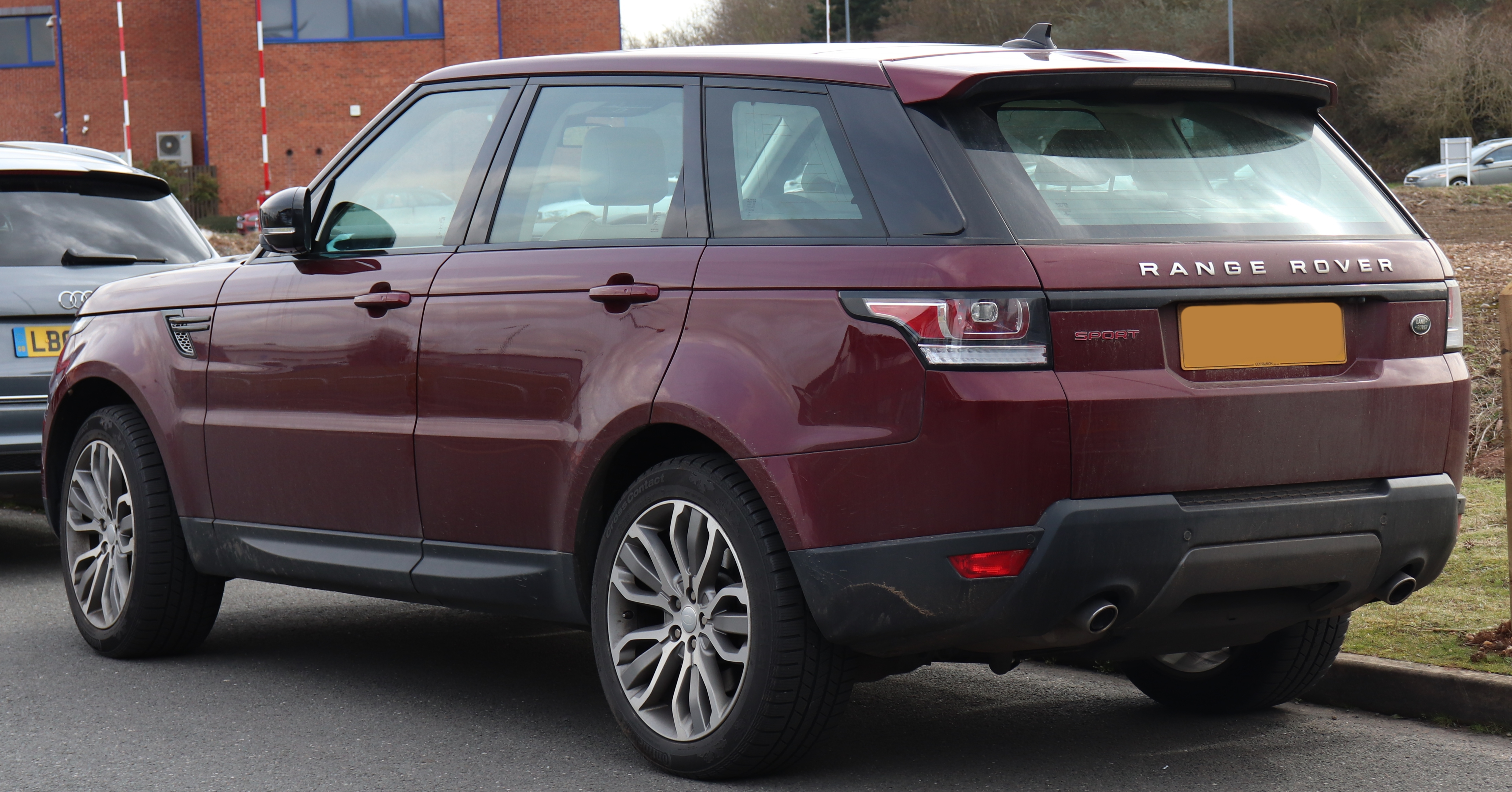 2015 Land Rover Range Rover Sport HSE 3.0 Rear Taken in Leamington Spa